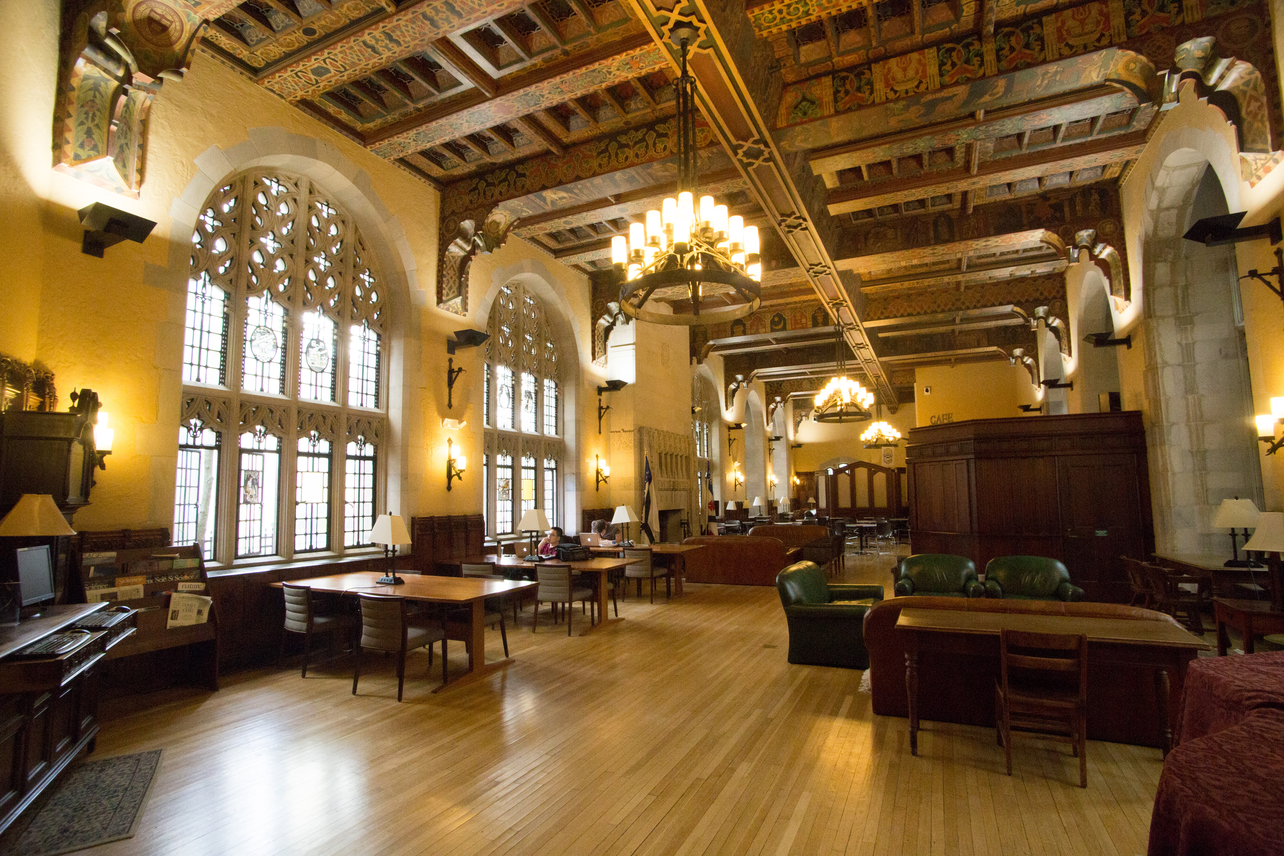 MacDougal Center in the Hall of Graduate Studies, Yale University